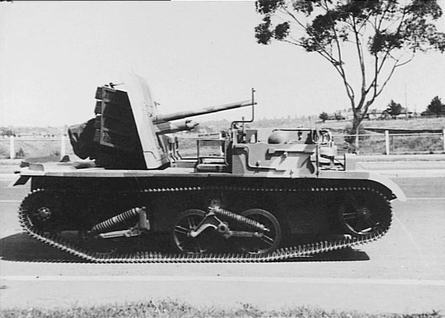 AWM photo caption: c.1943. A side view in a travelling position of a modified version of a machine gun carrier fitted with a 2 pounder anti-tank gun on turntable at rear. It is all mounted on a universal carrier chassis.